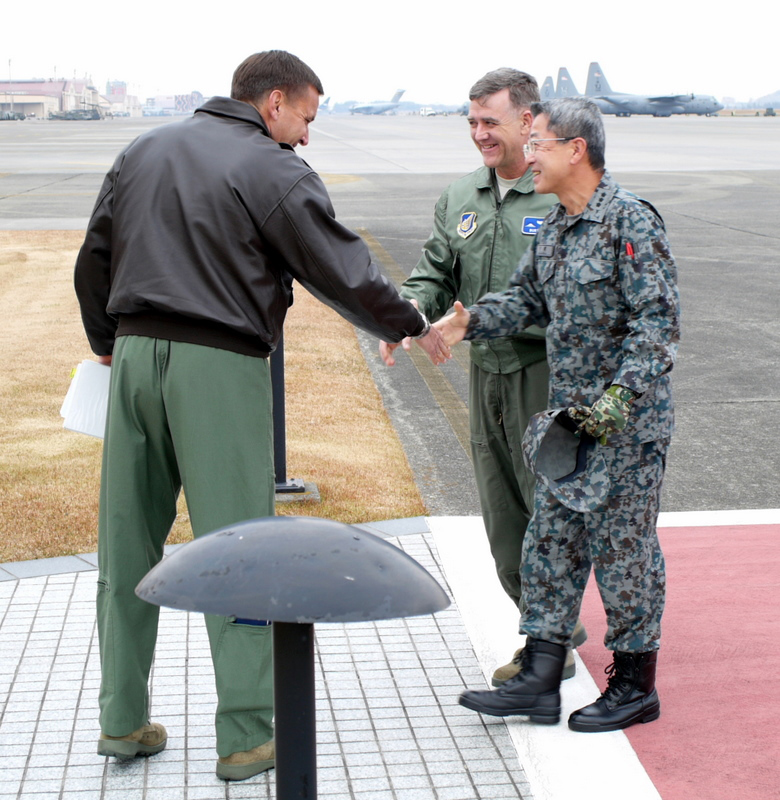 YOKOTA AIR BASE, Japan -- Lt. Gen. Ted Kresge, left, 13th Air Force Commander, greets Japan Air Self-Defense Force Lt. Gen. Haruhiko Kataoka, Air Defense Command Commander, here Dec. 14, 2011. The two generals joined Lt. Gen. Burton Field, US Forces Japan and 5th Air Force Commander, for high-level discussions on the US-Japan military alliance. General Kresge's visit was the third part in a series of meetings leading up to exercise Keen Edge in January 2012.)